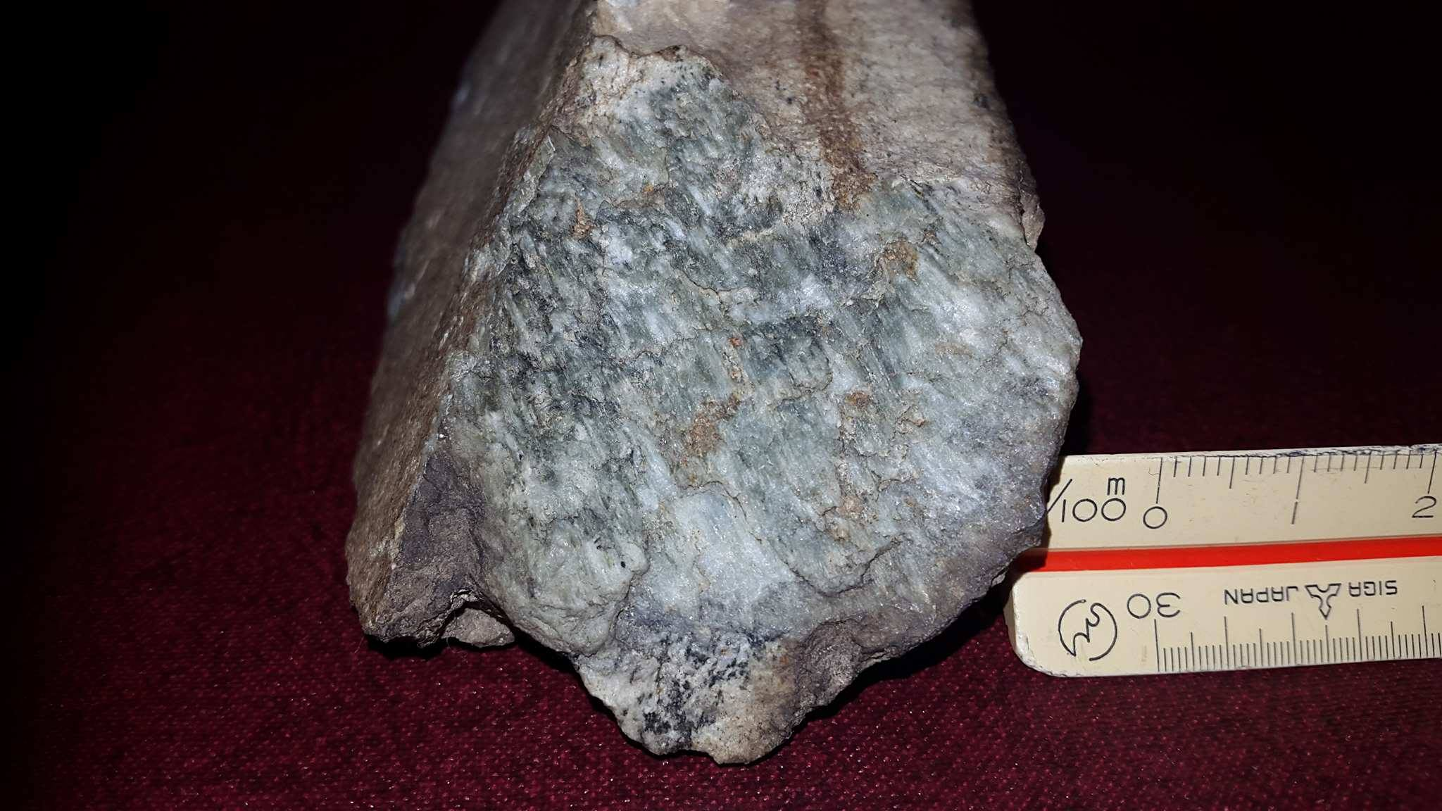 Slickenside sample extracted from Yonchon county, Kyonggi province, S.Korea